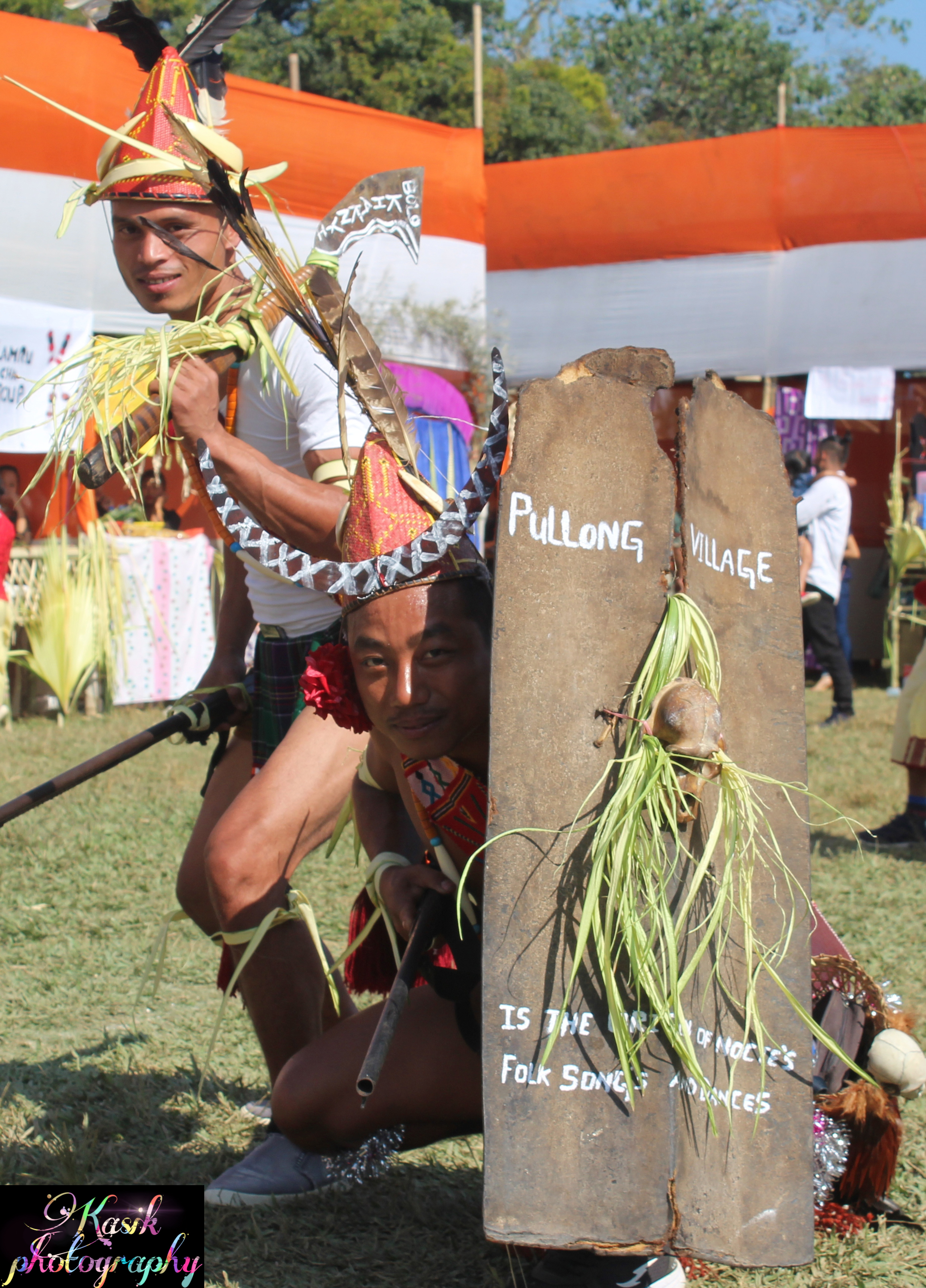 In the Picture,Taney and Chegan